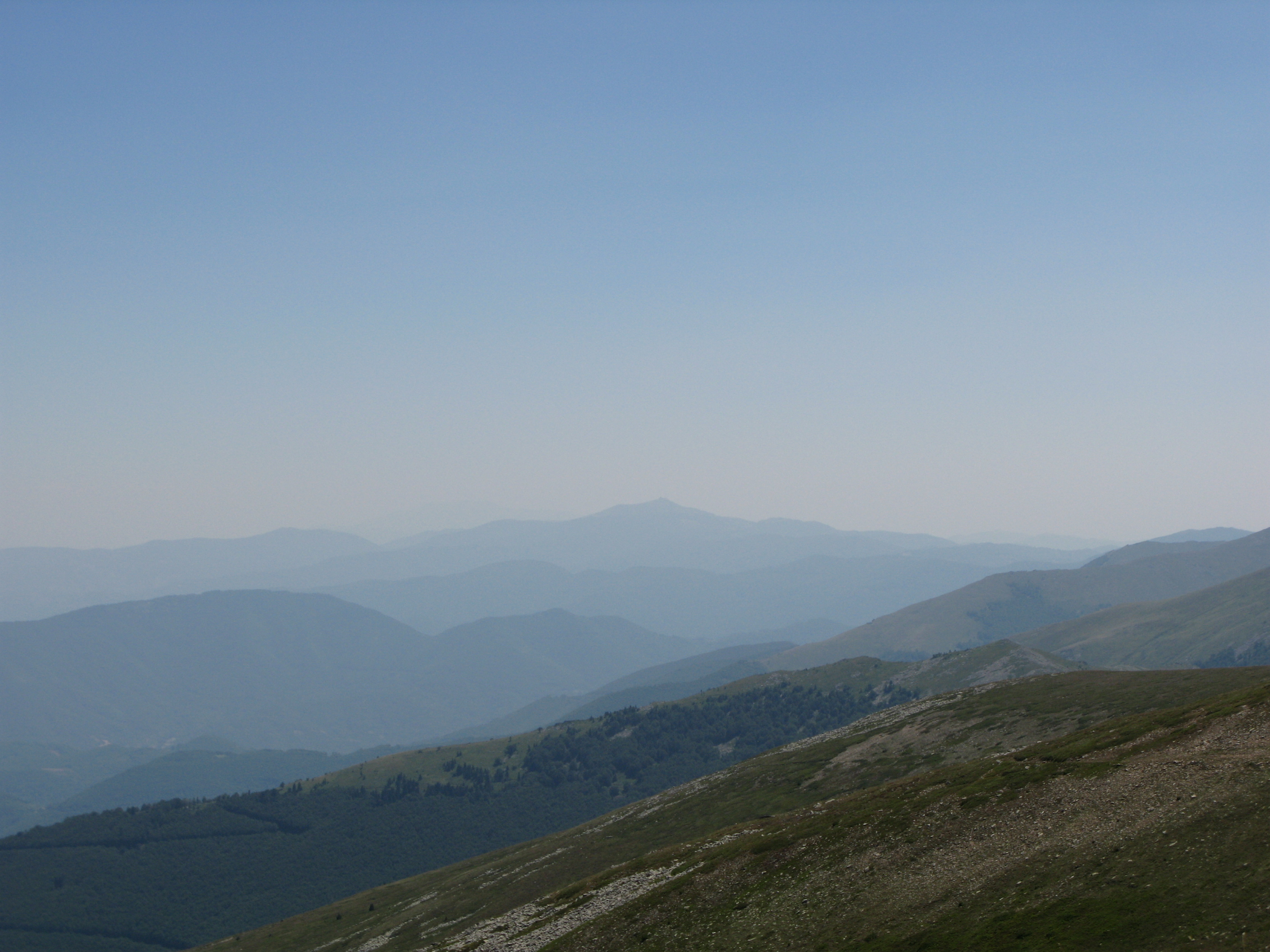 Nidže mountains are dividing Macedonia and Greece.